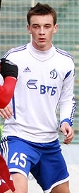 Borys Tashchy